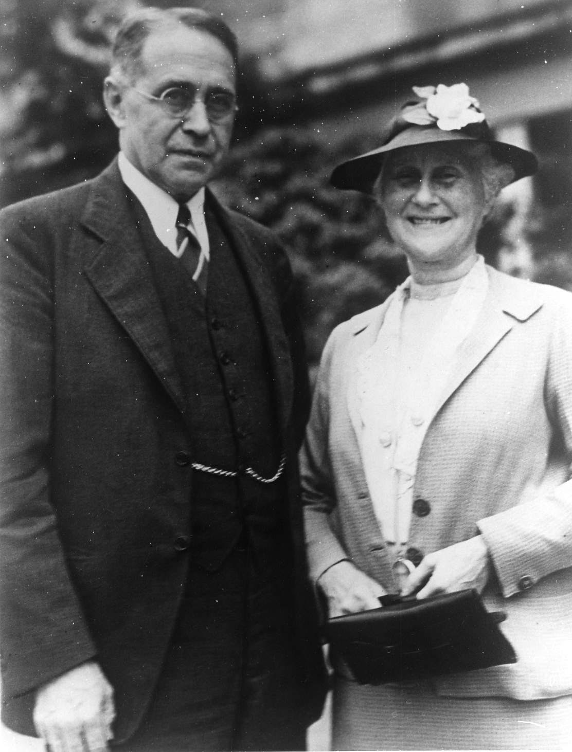 At the museum